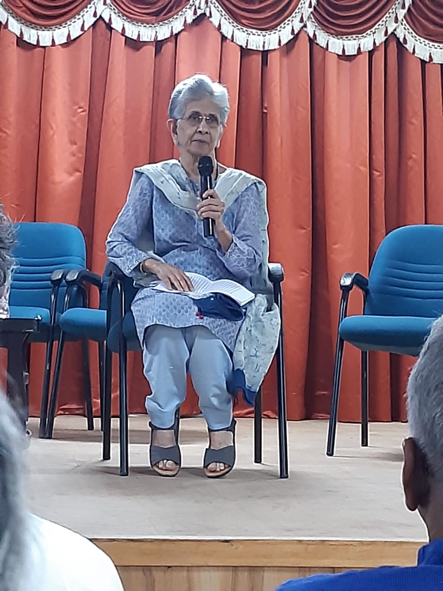 Shashi Deshpande speaking at a public meeting organised by The Network of Women in Media, India in Bengaluru in February 2020.